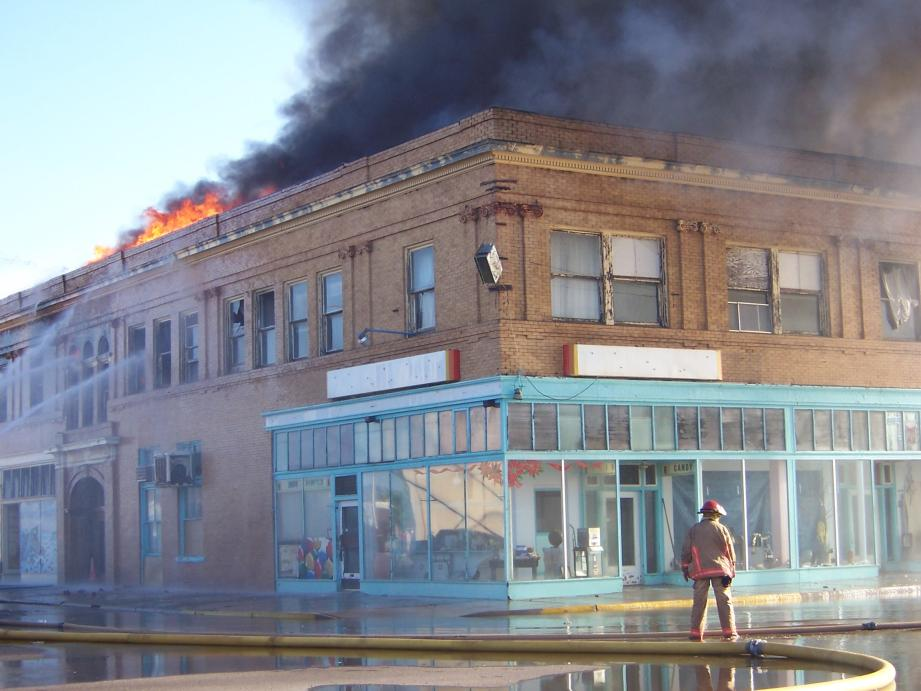 On June 8, 2007, Fire destroys the historic Federal Building (Sands-Dorsey Drug), built ca. 1910, in Tucumcari, New Mexico.